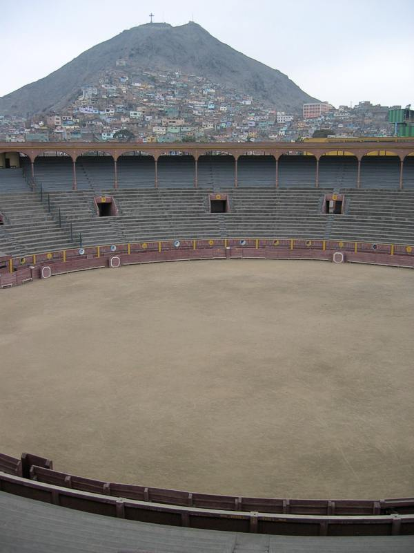 Bullring in Lima, Peru - the largest bullring in South America. Photograph taken by Michael Reeve, 21 September 2003.